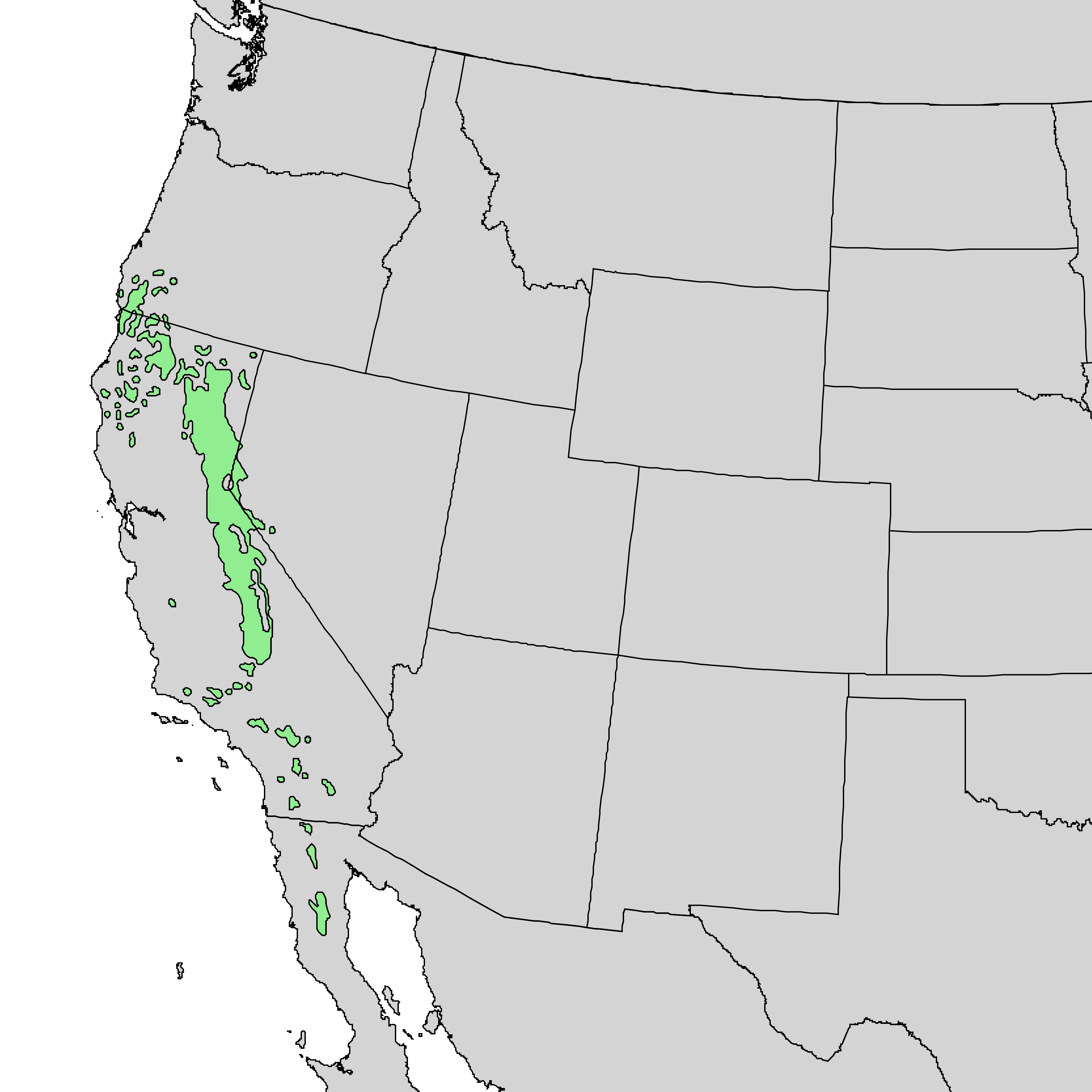 Natural distribution map for Pinus jeffreyi